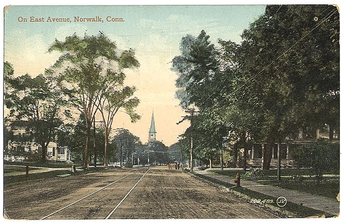 Post Card: East Avenue, Norwalk, Connecticut, 1909 postmark "Postmarked with 1909 Norwalk flag cancel"